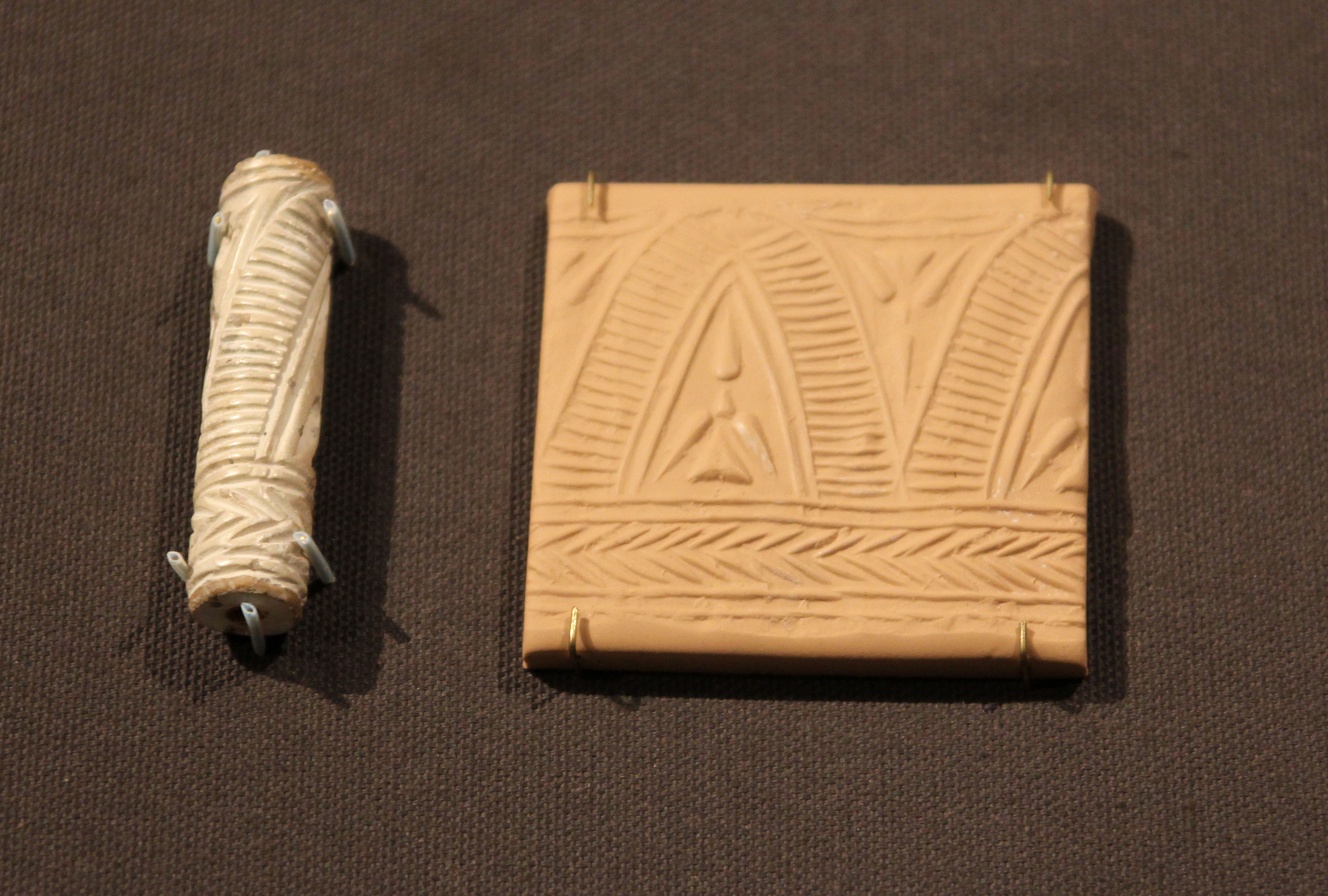 Cylinder seal from the Jemdet Nasr period (3100-2900 BC). Find location: Khafajah Sin Temple IV (Iraq) Current location: Oriental Institute Museum, Chicago (USA)